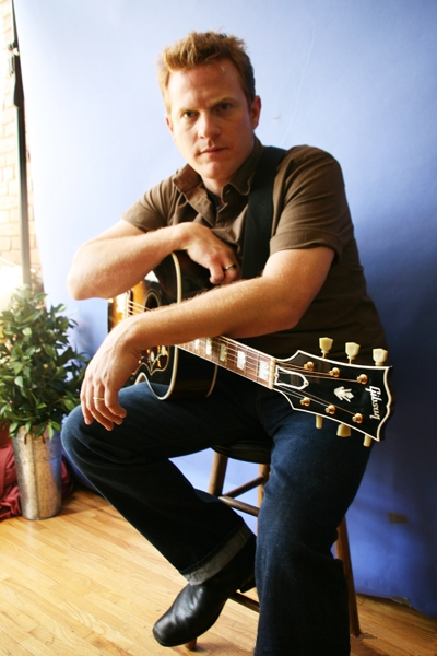 Country / blues artist Jace Everett